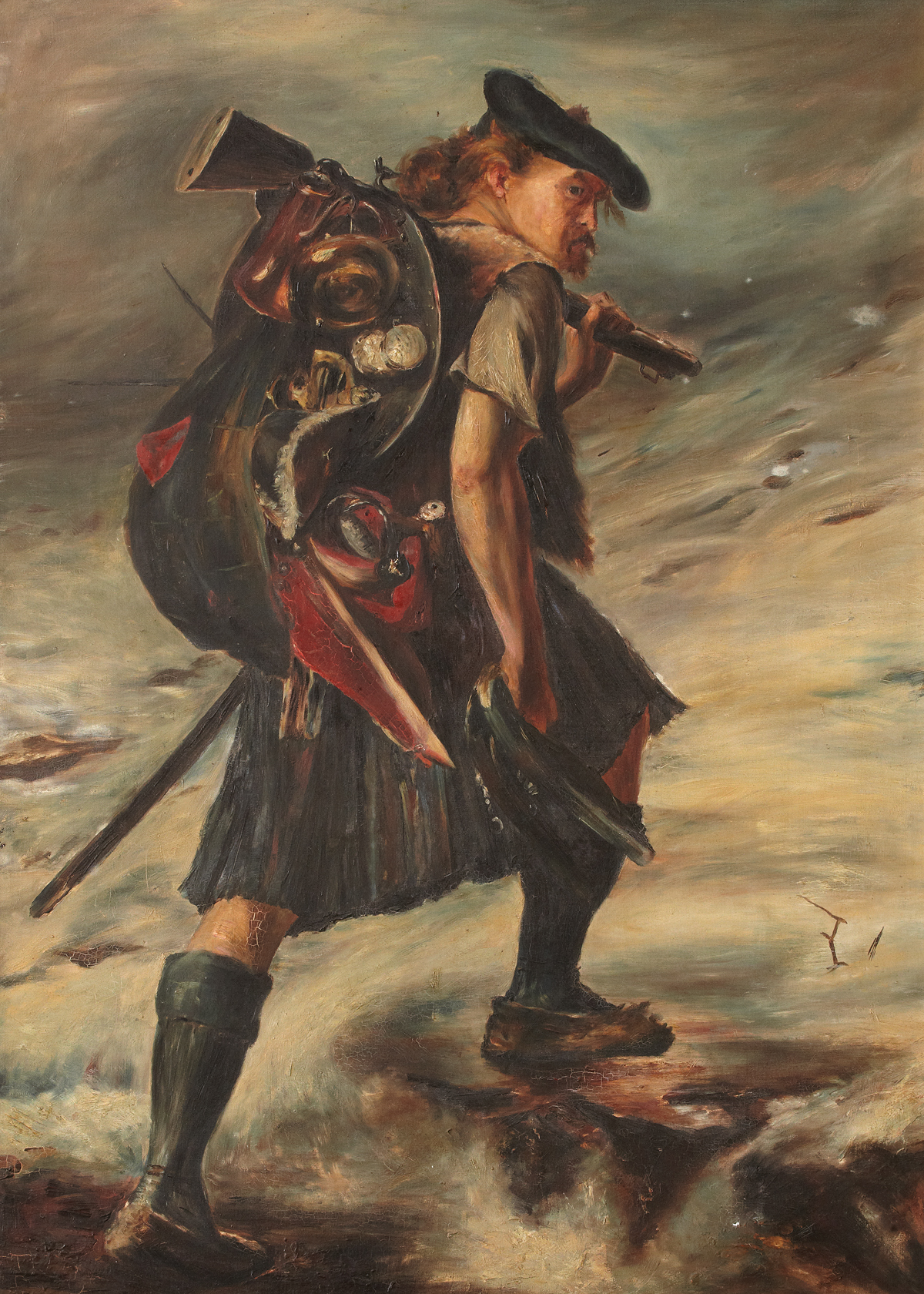 Pettie, John; Disbanded; University of Edinburgh